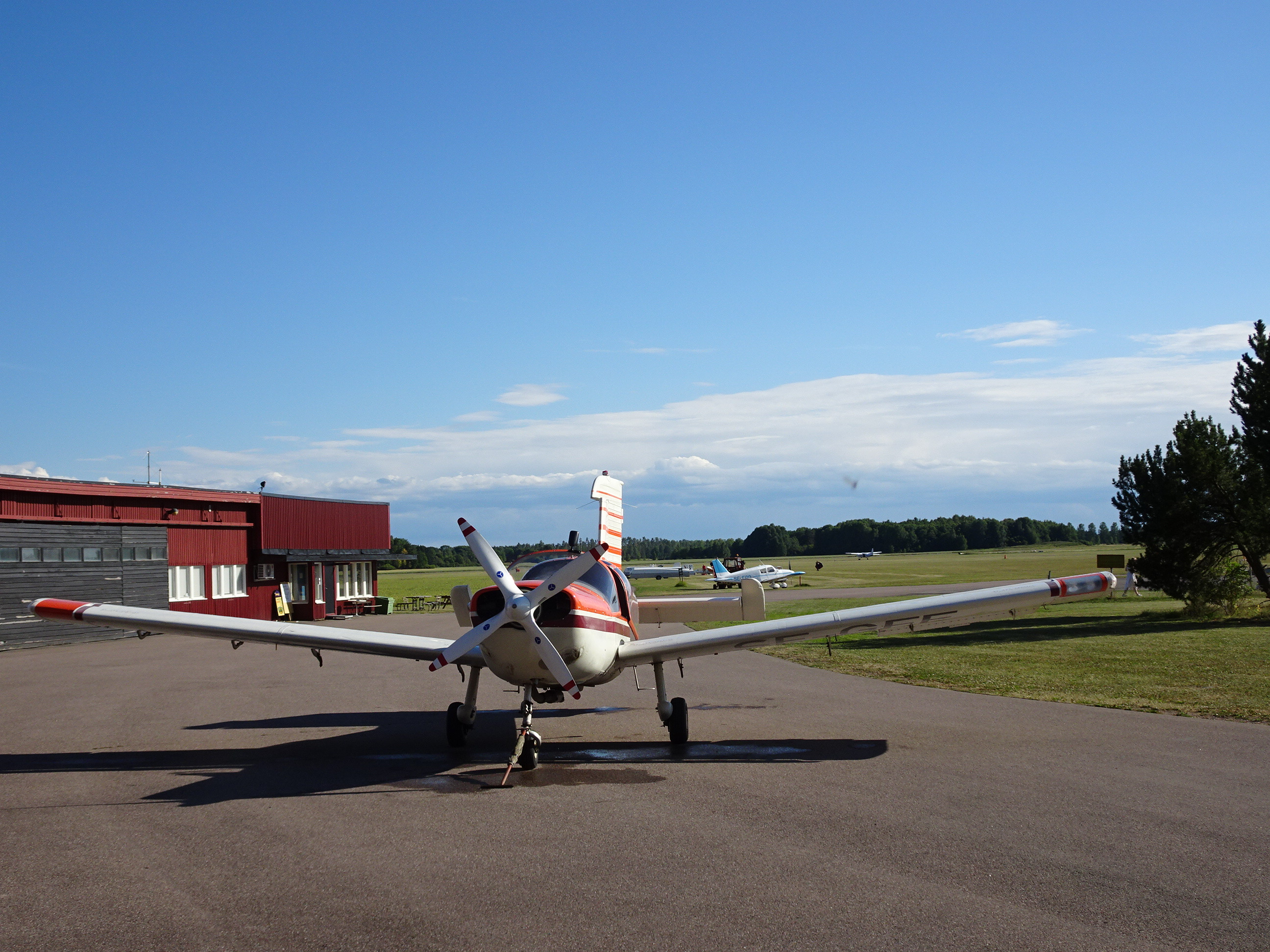 Västerås/Johannisbergs flygfält in Västerås, Sweden.